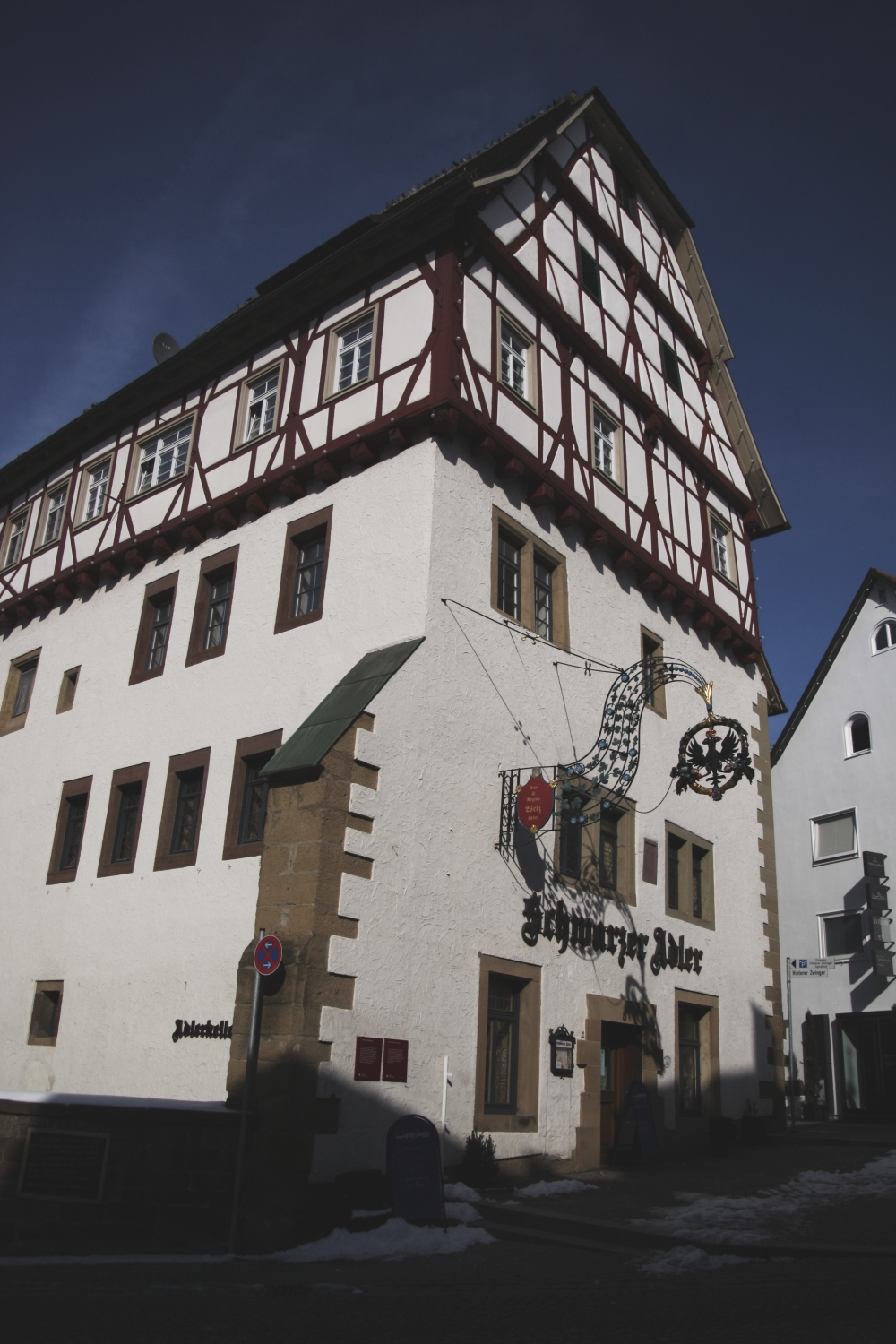 Schwarzer Adler Guesthouse, Leonberg, former "Stonehouse" seat of the first Württemberg Parliament of 1457